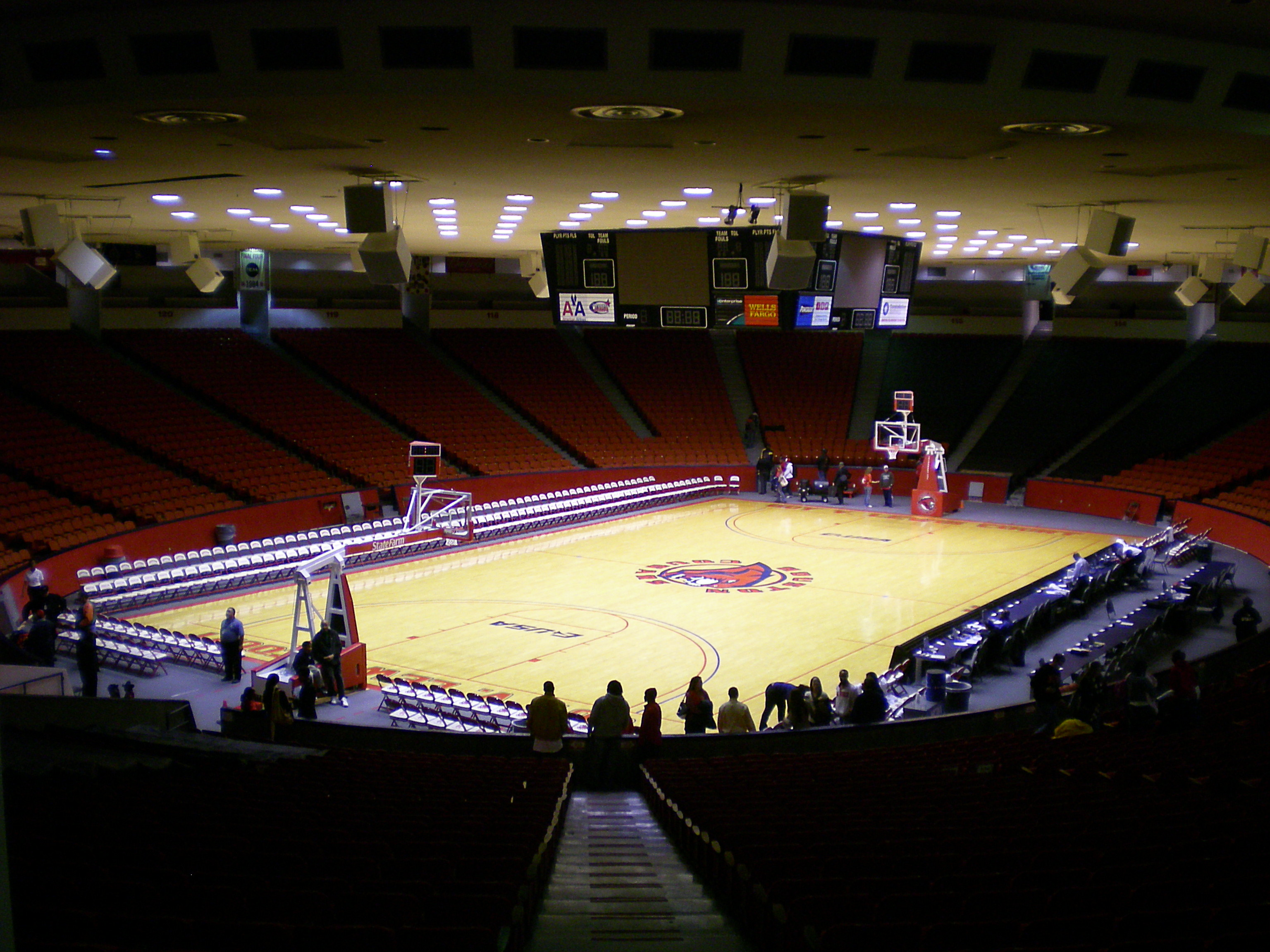 The interior of Hofheinz Pavilion, home to the Houston Cougars men's and women's basketball teams. The arena is located on the campus of the University of Houston in Houston, Texas, and seats approximately 8,500.